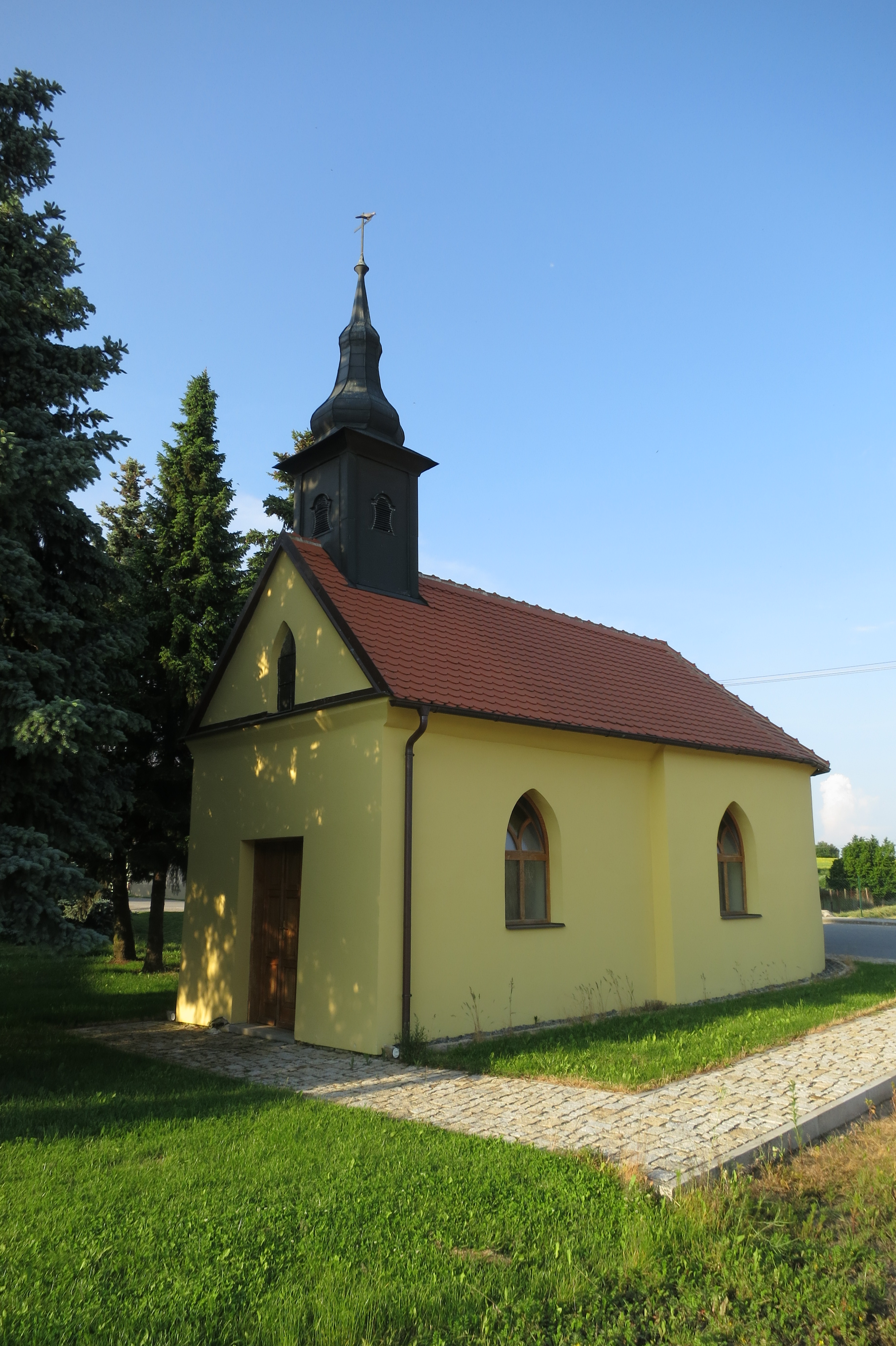 Chapel of Saint John the Baptist in Menhartice, Třebíč District.